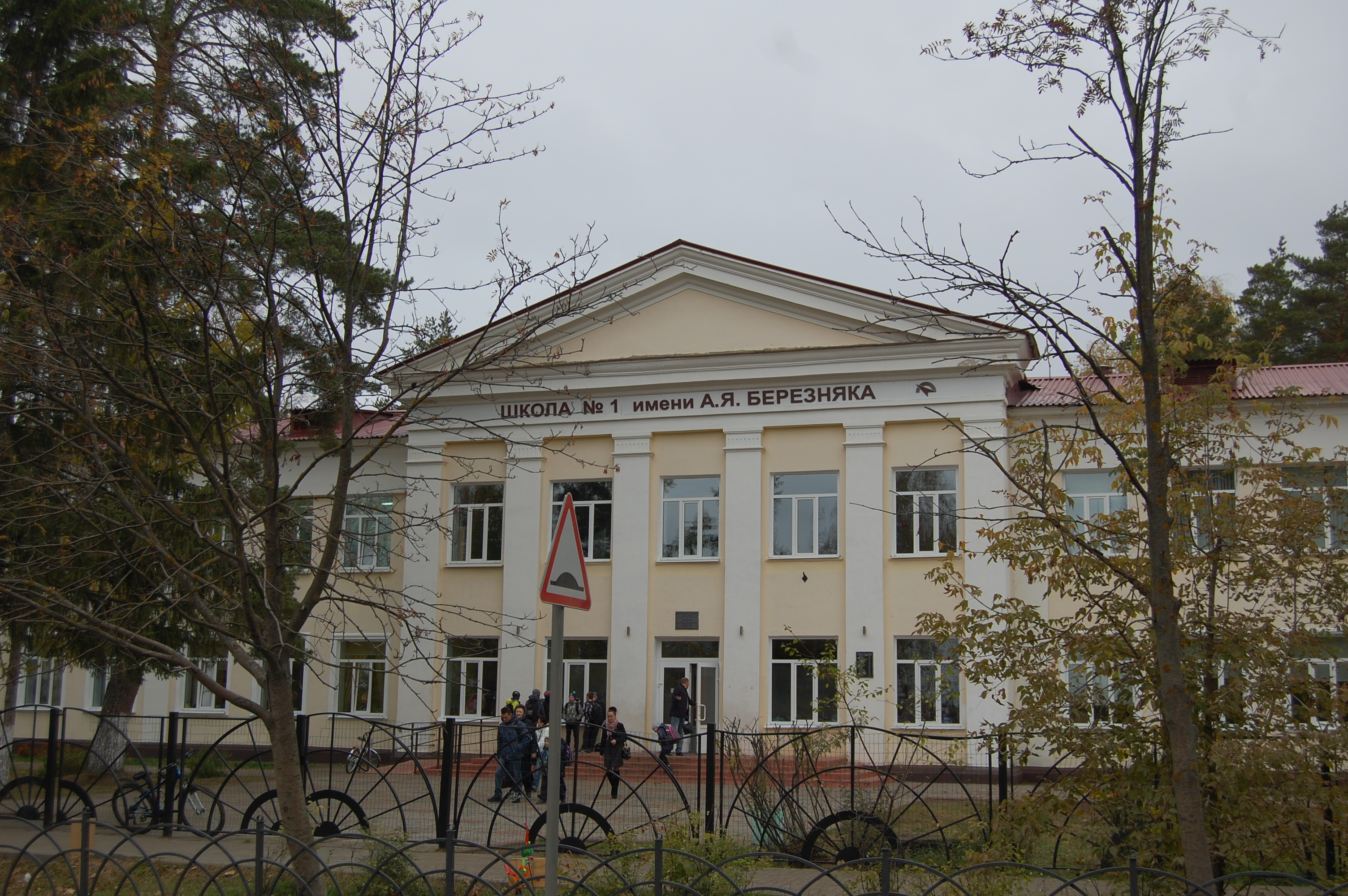 School # 1 named after Alexander Bereznyak (1912–1974)in Dubna, Moscow oblast